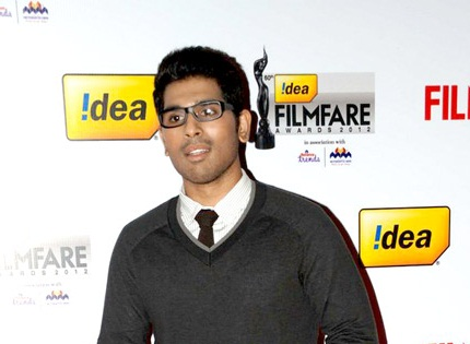 Telugu actor Allu Sirish at the 60th Filmfare Awards South ceremony in 2013. Cropped from the original